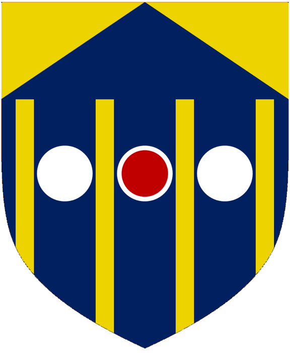 Shield of arms of The Lord Matthews